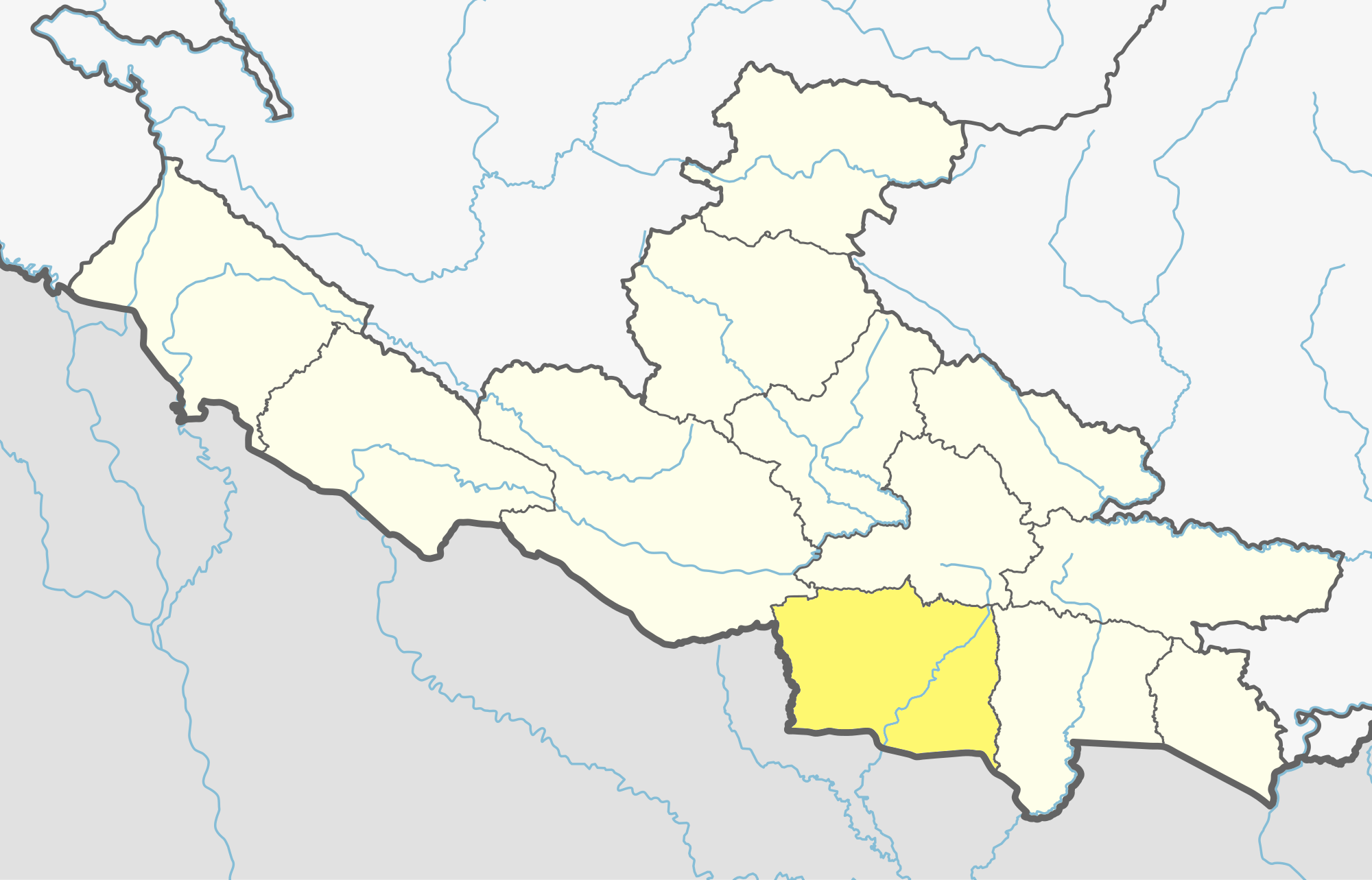 Kapilvastu District